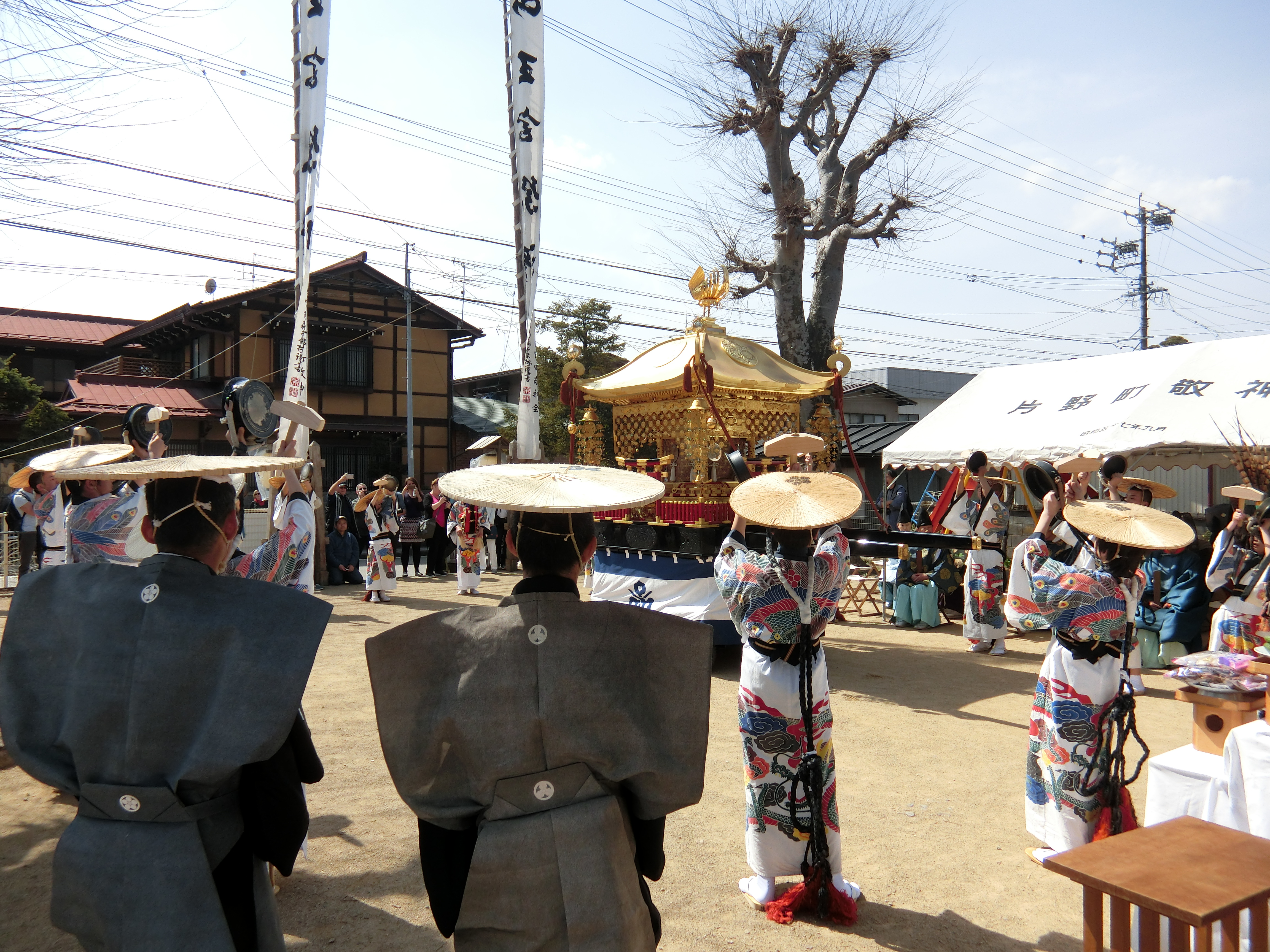 Toukeiraku performing art of Takayama festival.